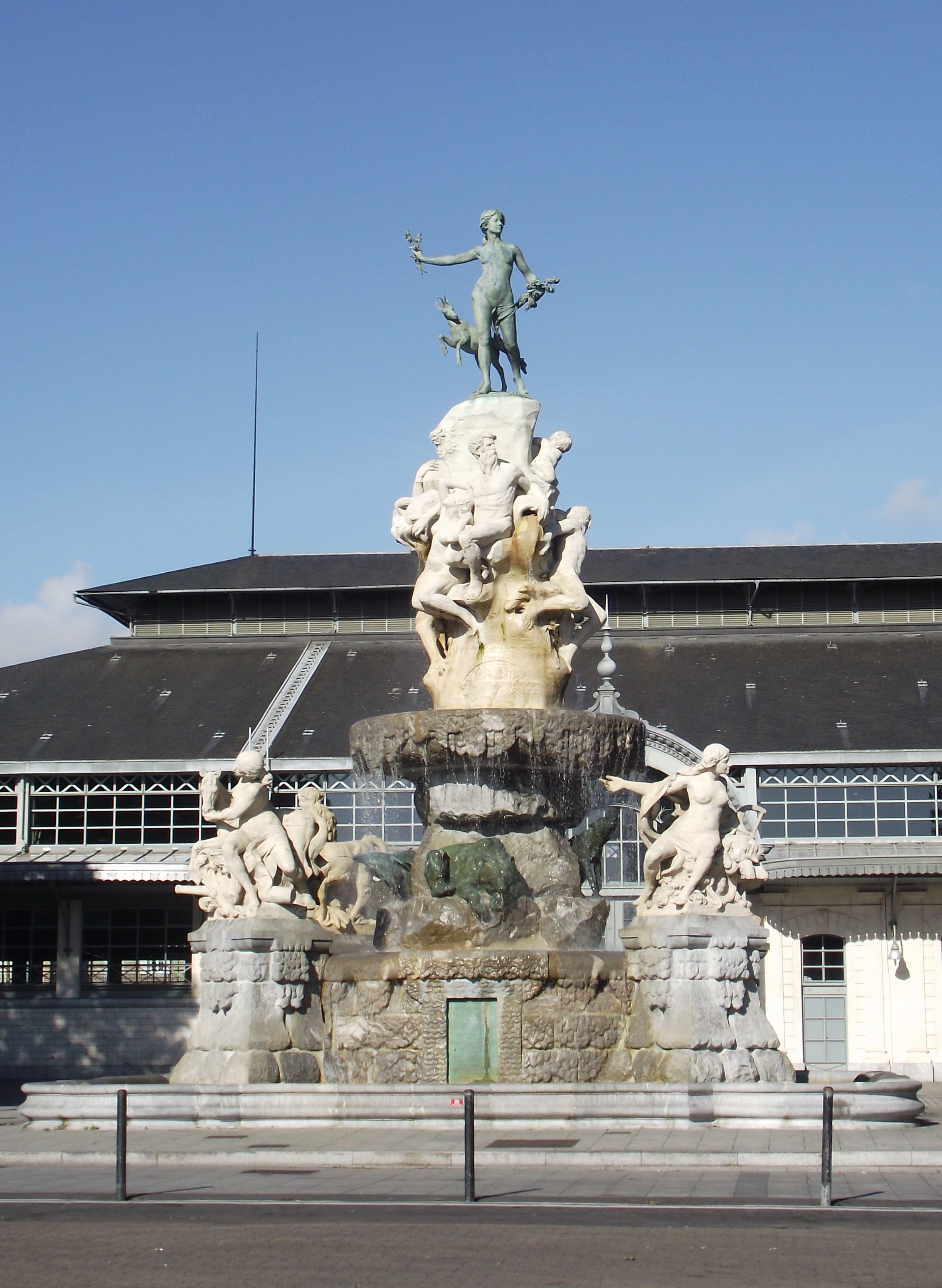 Duvignau Monumental Fountain, Tarbes, Hautes-Pyrénées, France